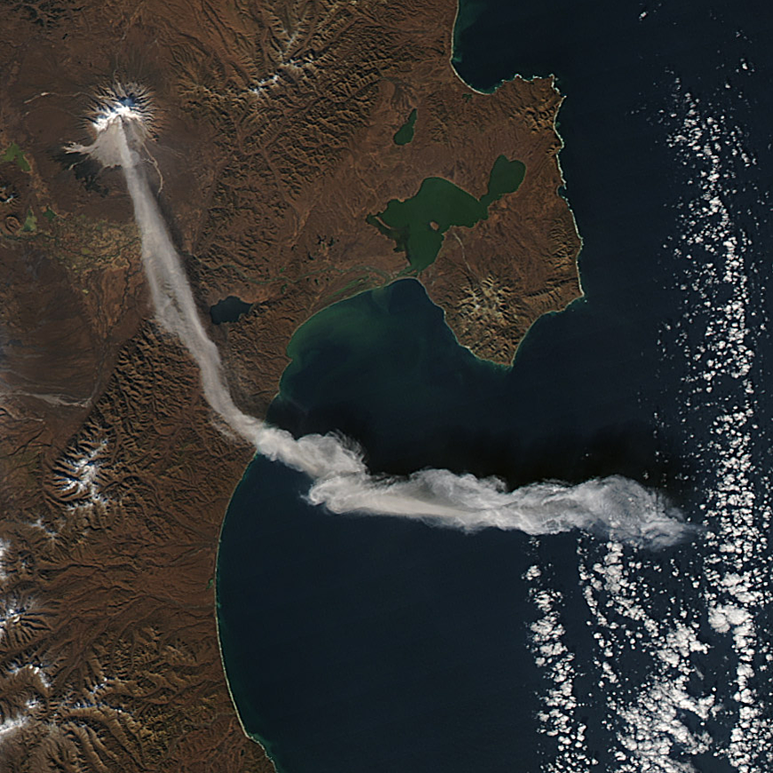 Shiveluch Volcano at Russia’s Kamchatka Peninsula at noon local time (00:00 Universal Time; GMT+12) on 06-11-2012, as observed by NASA’s Aqua satellite with Moderate Resolution Imaging Spectroradiometer (MODIS). The erupted volcano has sent a plume of ash over the Kamchatka Gulf. The plume has traveled about 90 kilometers toward the south-southeast, where a change in wind direction has began pushing the plume toward the east.